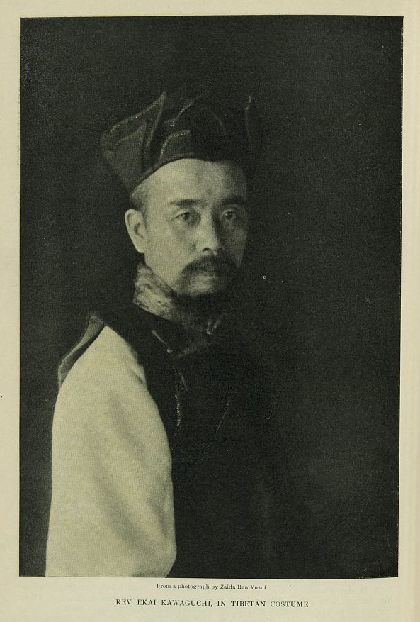 Japanese Buddhist monk Ekai Kawaguchi (1866–1945). Illustration in "Metropolitan Magazine", Vol. LXVII, no. 3 (Jan. 1904), p. 384, accompanying Kawaguchi's article "The Latest News from Lhasa: A Narrative of Personal Adventure in Tibet," from a photograph by Zaida Ben-Yusuf.